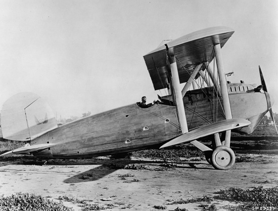 Catalog #: 00065440 Manufacturer: Douglas Designation: Official Nickname: Cloudster Notes: Repository: San Diego Air and Space Museum Archive